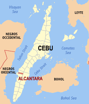 Map of Cebu showing the location of Alcantara